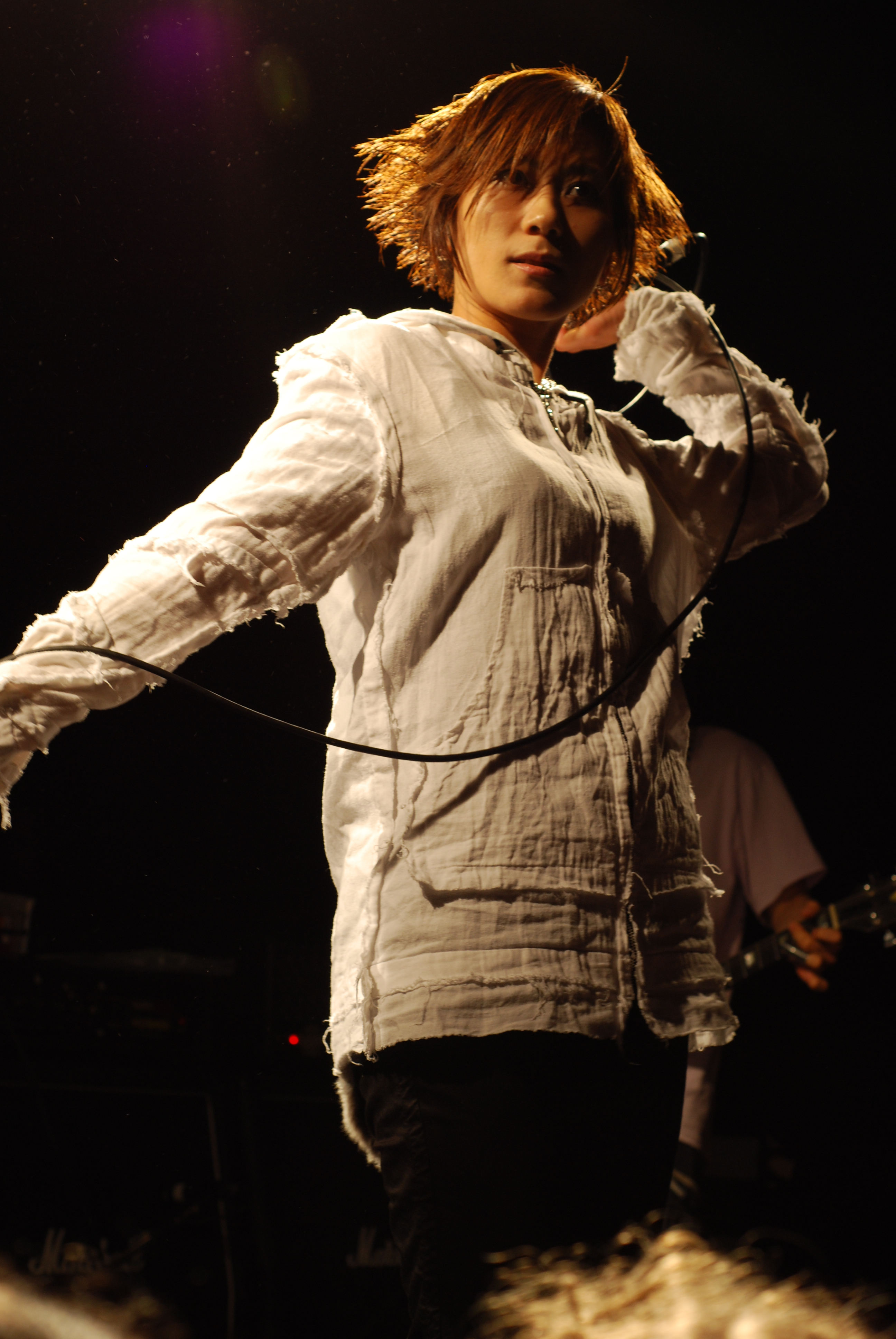 Yasuko Onuki, Melt Banana's singer, live in London